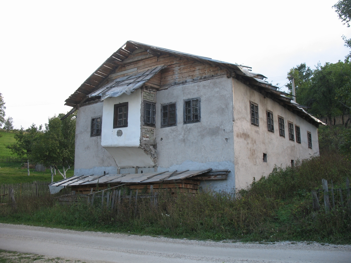 Han (motel from turkish times) in Kremna near Užice, Serbia.